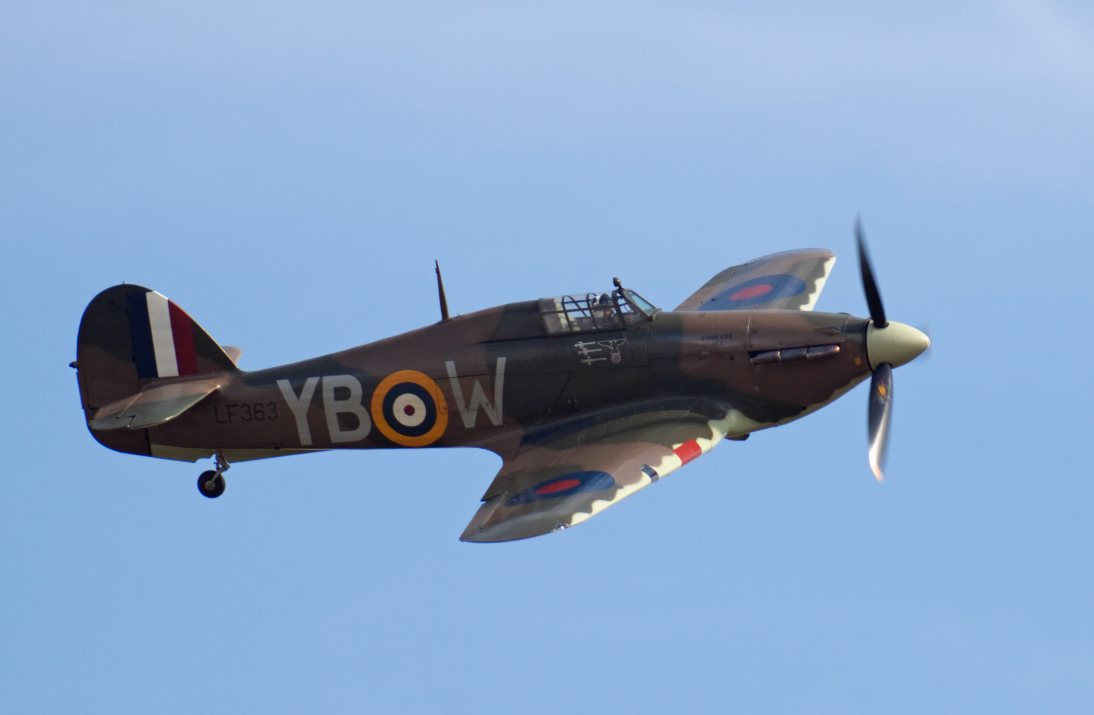 Hawker Hurricane LF363 4a